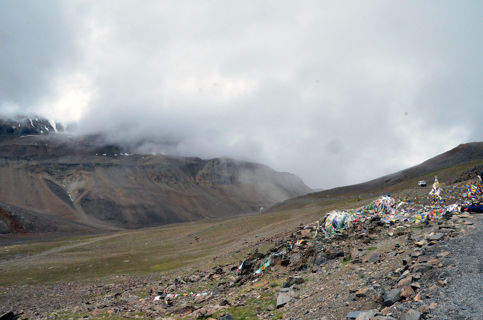 View of Baralacha La